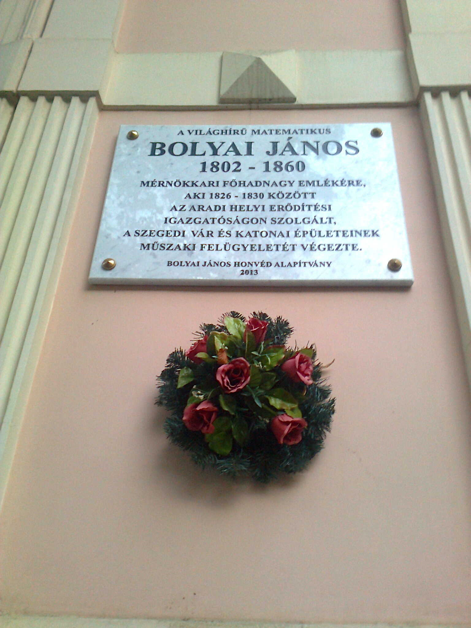 Bolyai memorial plaque in Szeged (Bolyai János street)